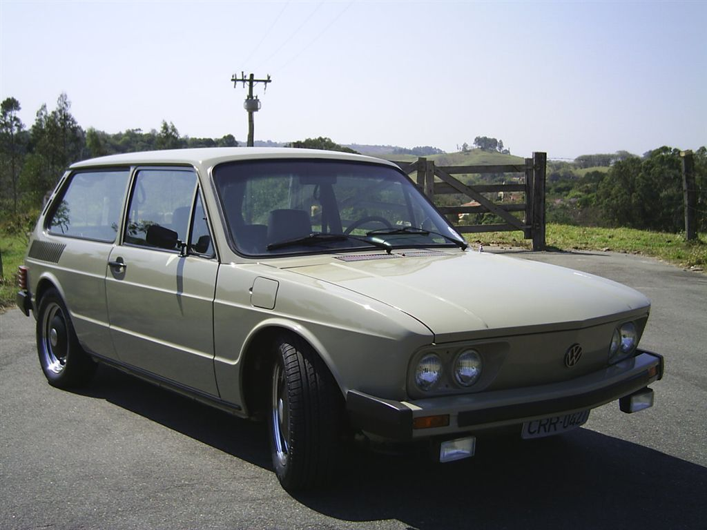 Volkswagen Brasilia LS 1980 (Dacon)